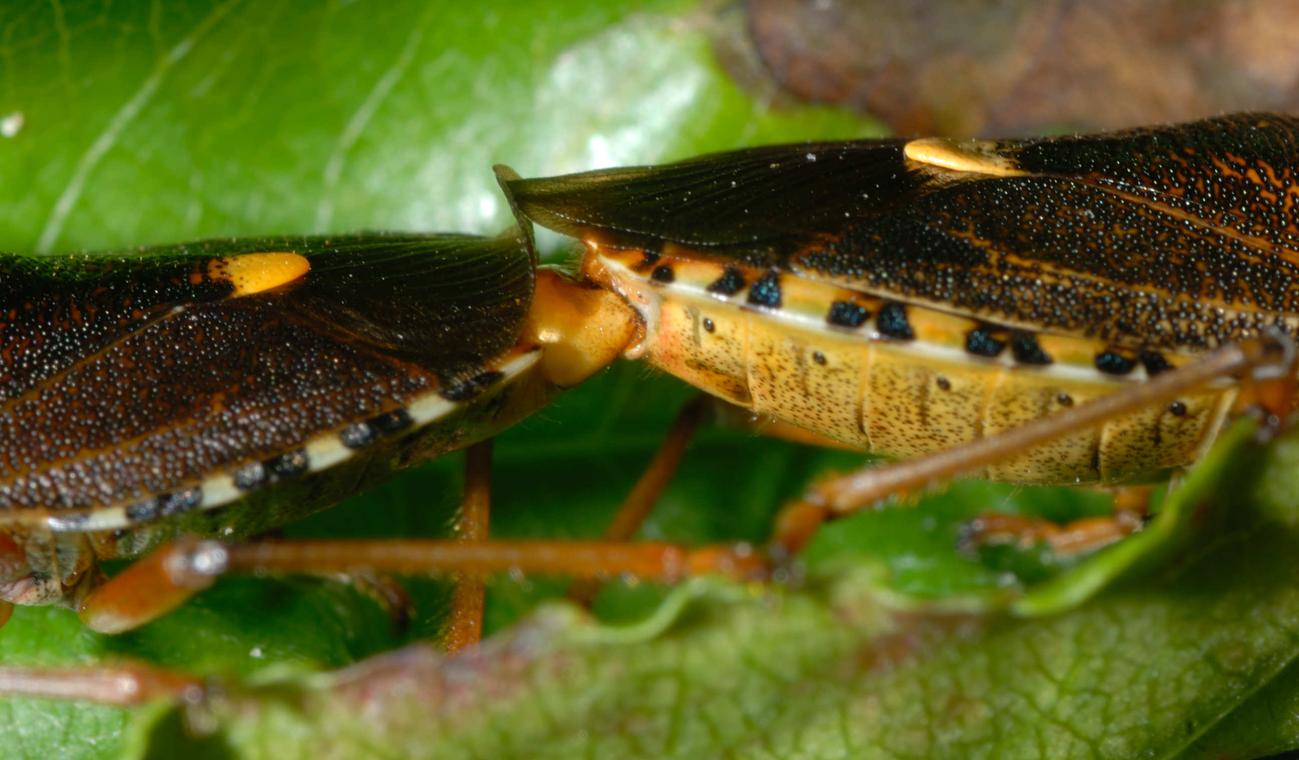 This image shows two mating Forest bugs (Pentatoma rufipes)